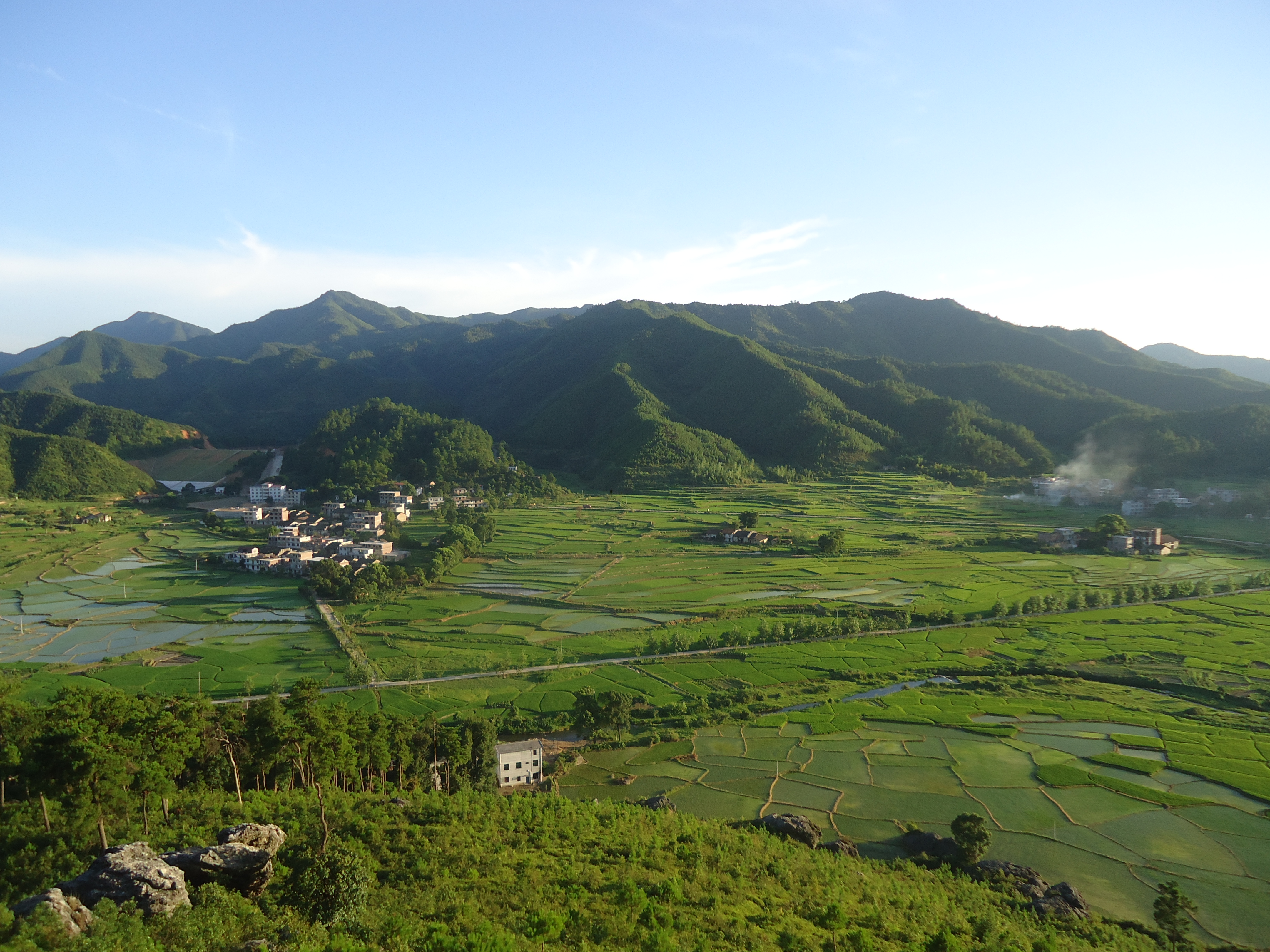 Countryside_in_Sima_town,Yongfeng_county,_Ji'an_city,Jiangxi_province,China.JPG,taken in July 28,2013